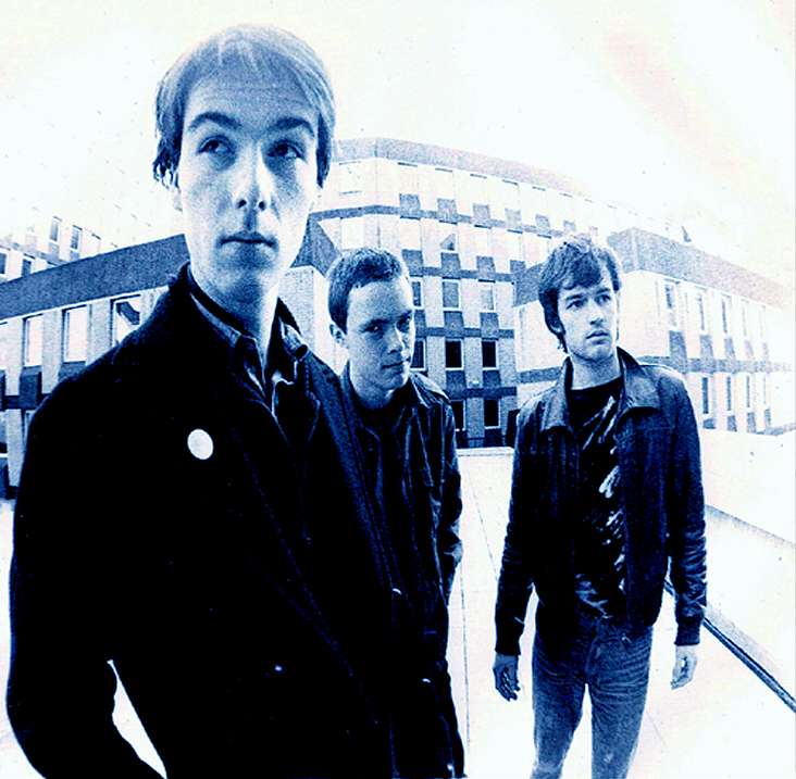 Apartment-1979; Alan Griffiths, Emil, Richard White.